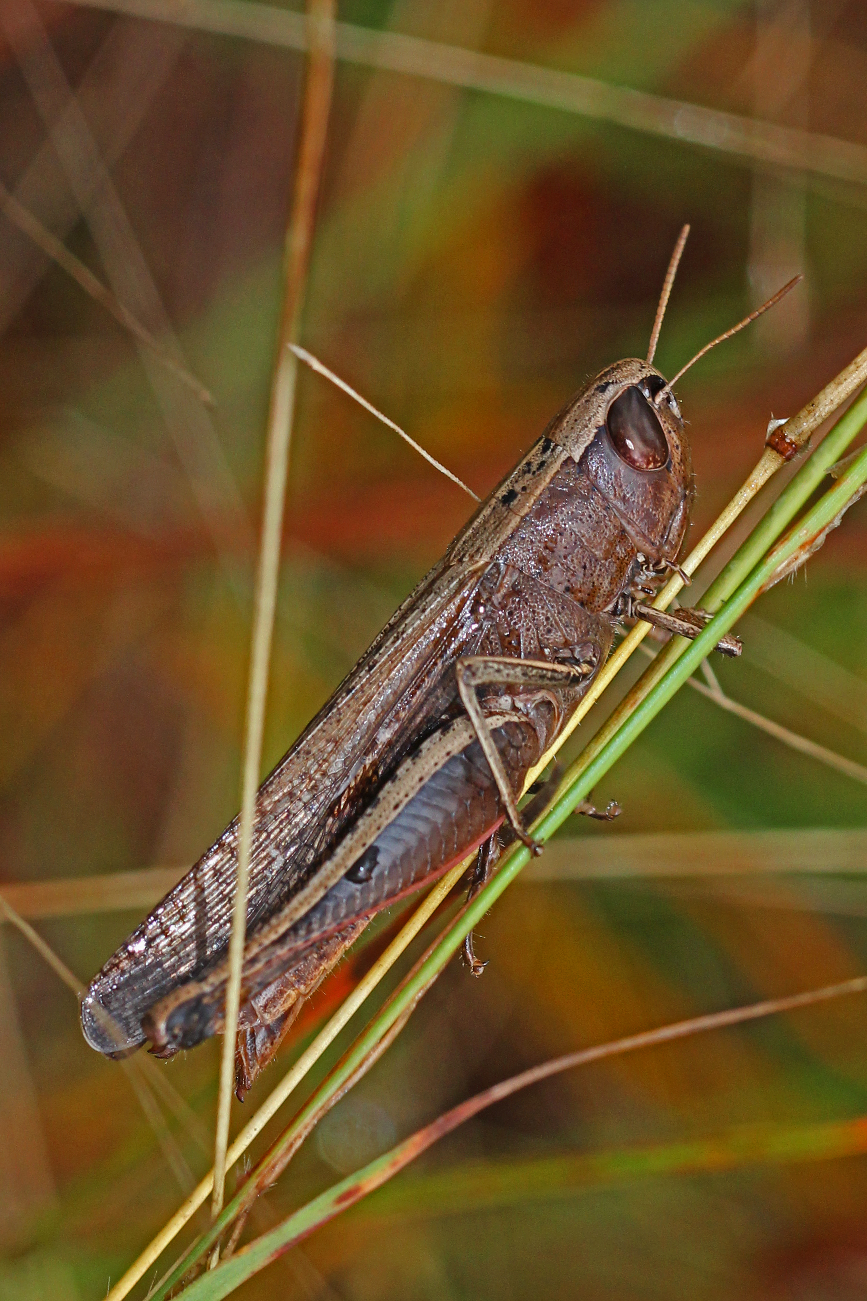 Brown Winter Grasshopper - Amblytropidia mysteca, Long Pine Key, Everglades National Park, Homestead, Florida.